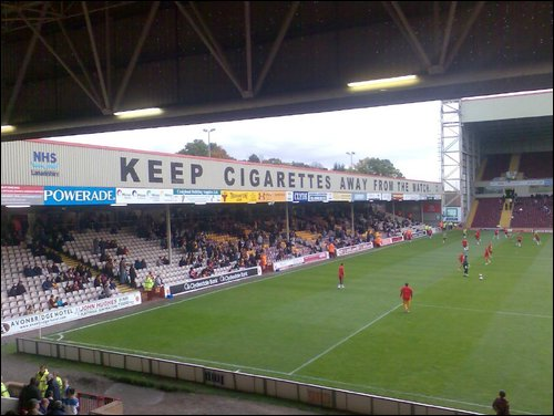 The East Stand at Fir Park filling up prior to a match.